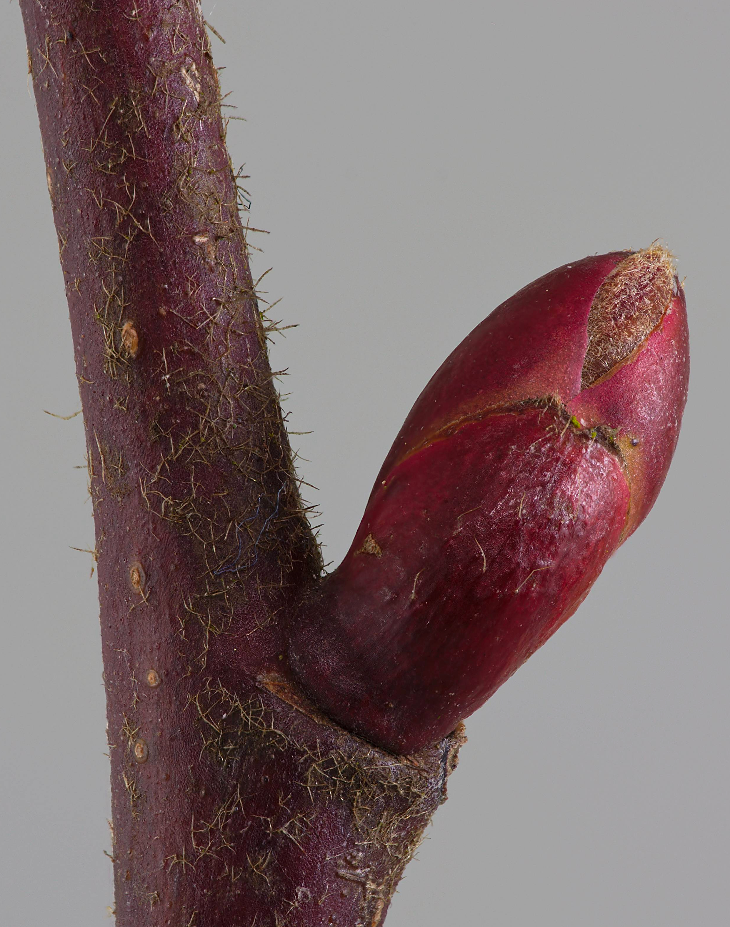 Bud of Tilia platyphallos starting to open. Focus stack of 15 images taken with a SMC Pentax DFA 100mm f2,8 WR at f/8, stacked in CombineZP. The bud itself is about 1 cm long.